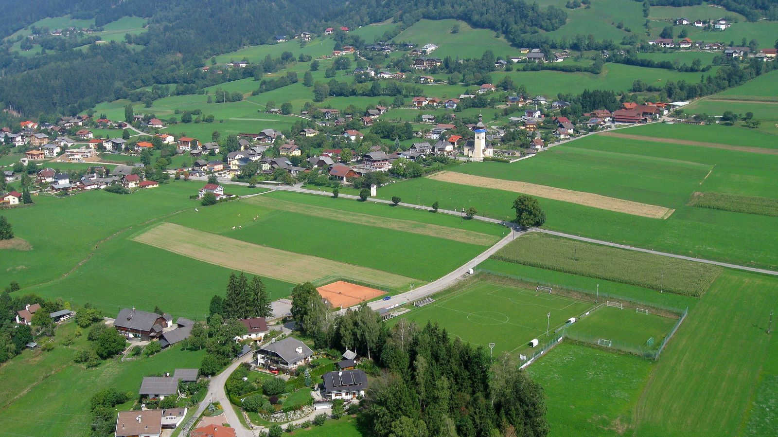 Aerial view of Obermillstatt near Lake Millstatt (Millstätter See), district Spittal an der Drau in Carinthia, Austria / European Union. Photo shoot equipped with a model helicopter Multicopter DJI S800 with a Canon PowerShot A590, which was mounted on a self-constructed fastening for the camera. This was designed for the "Helicam project" in order for a film crew for the nature documentary series UNIVERSUM the Austrian Broadcasting Corporation.